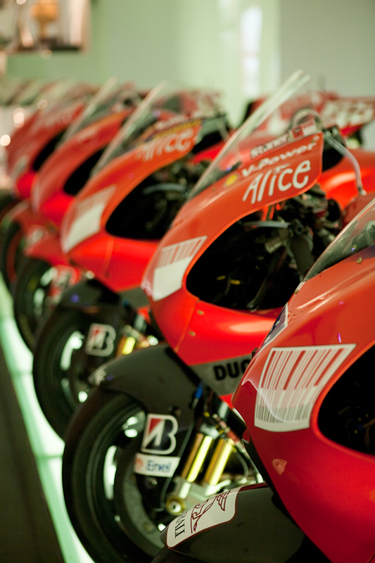 Desmosedici chronology at Ducati Museum, Borgo Panigale